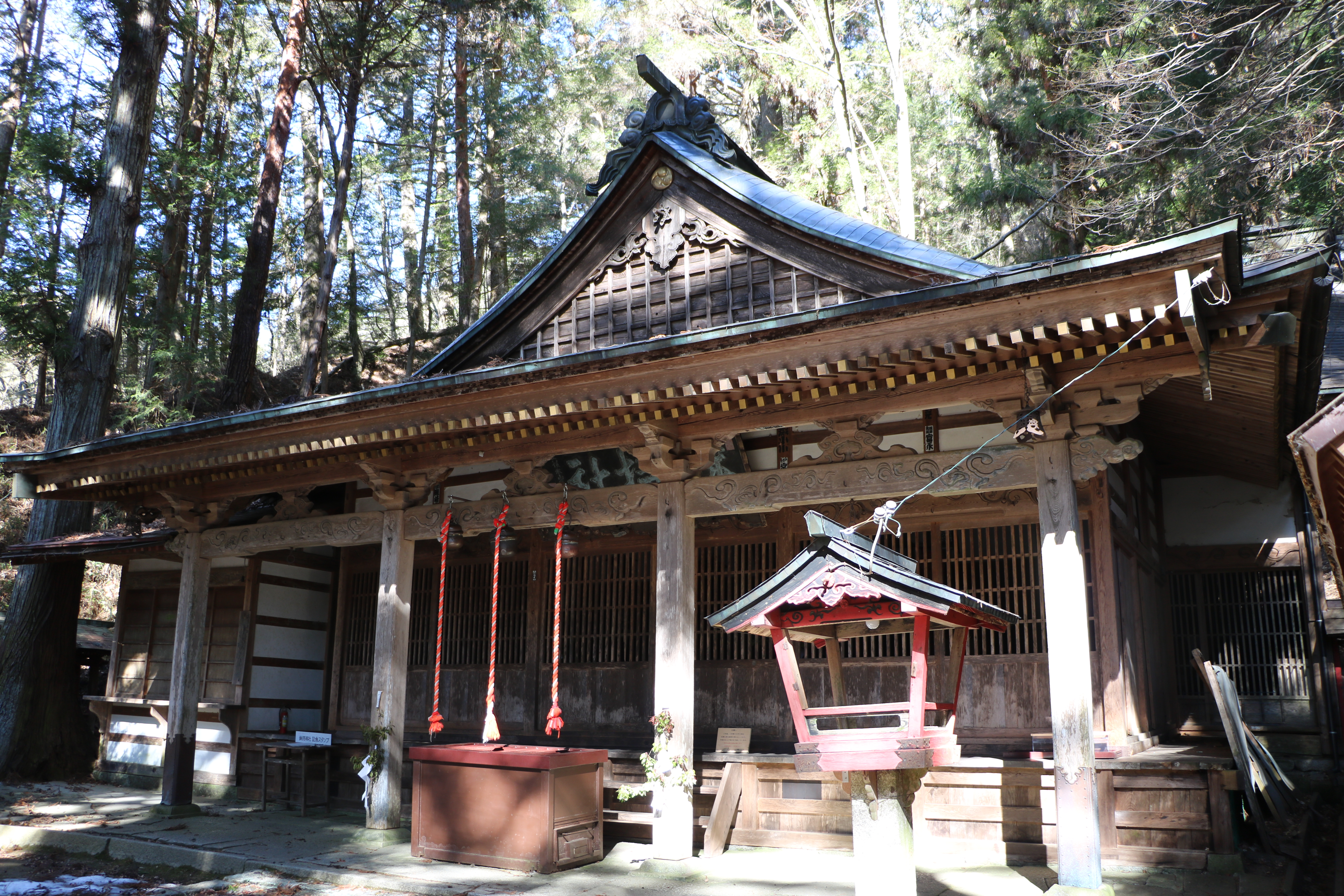 Hokoji Shrine Haiden